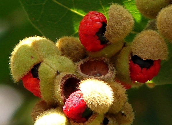 Alectryon tomentosus Common Names: Hairy alectryon, Woolly rambutan, Hairy bird's eye It is one of the few australian rainforest trees to fruit heavily in winter "The fruit is a brown hairy capsule, 1-3 lobed, opening to reveal the red aril and shiny black (seeds). The red fleshy aril is edible. The photo taken in Brisbane.